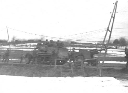 A prime mover pulls a towed 3-inch tank destroyer.